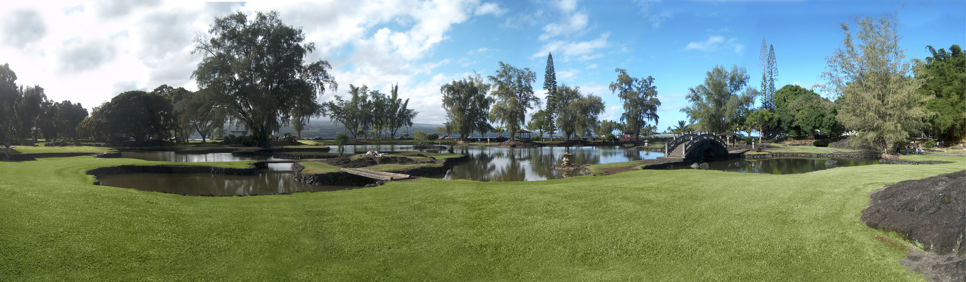 Lilioukalani Gardens in Hilo, Hawaii, United States. Panoramic Stitched photo looking north-east